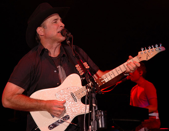 Clint Black performing at a benefit concert for the Miracle League.